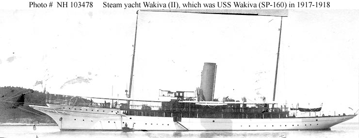 Steam yacht Wakiva (II), which served as United States Navy patrol vessel USS ""Wakiva (SP-160) in 1917-1918